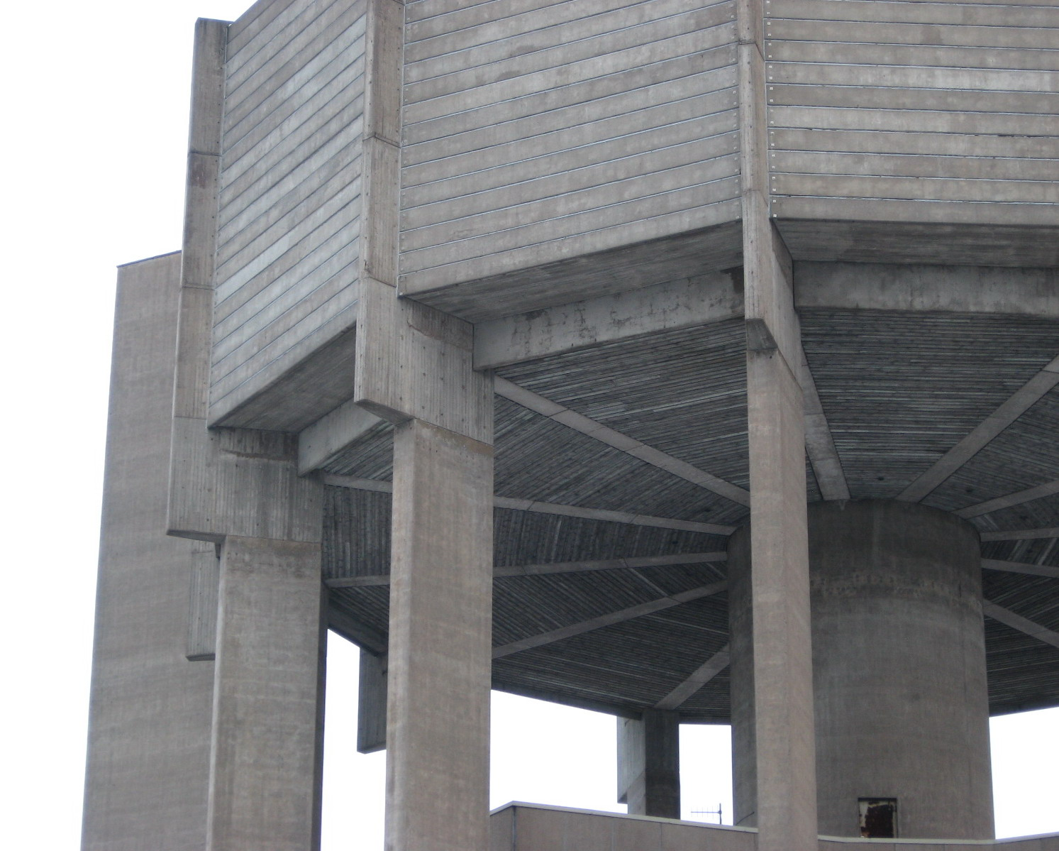 Otaniemi water tower, Espoo, Finland. Details. Architect Alvar Aalto. The prefabricated horizontal concrete "planks" are disjointable from whichever side for maintenance.